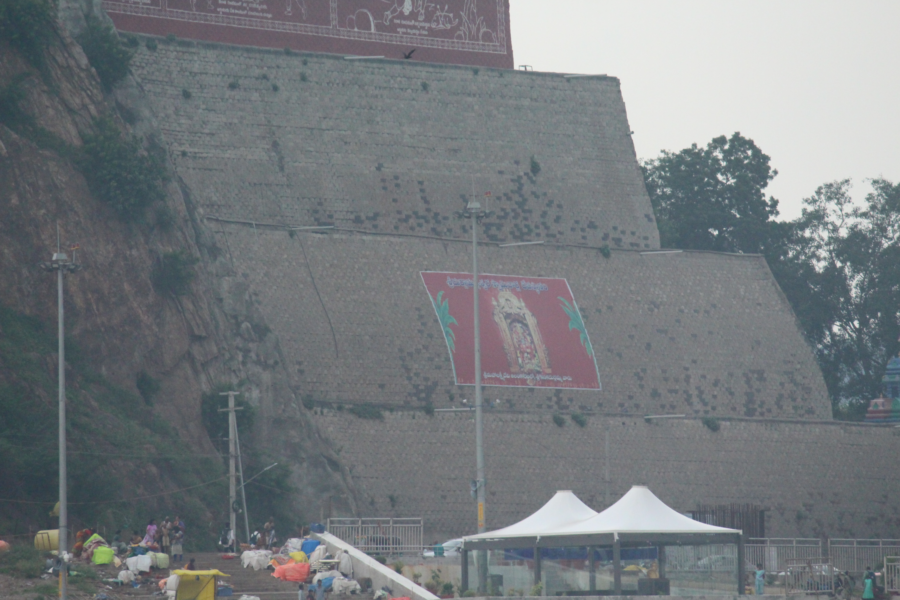 Kanaka Durga Temple is a famous hindu Temple of Goddess Durga located in Vijayawada, Andhra Pradesh. The temple is located on the Indrakeeladri hill, on the banks of Krishna River.